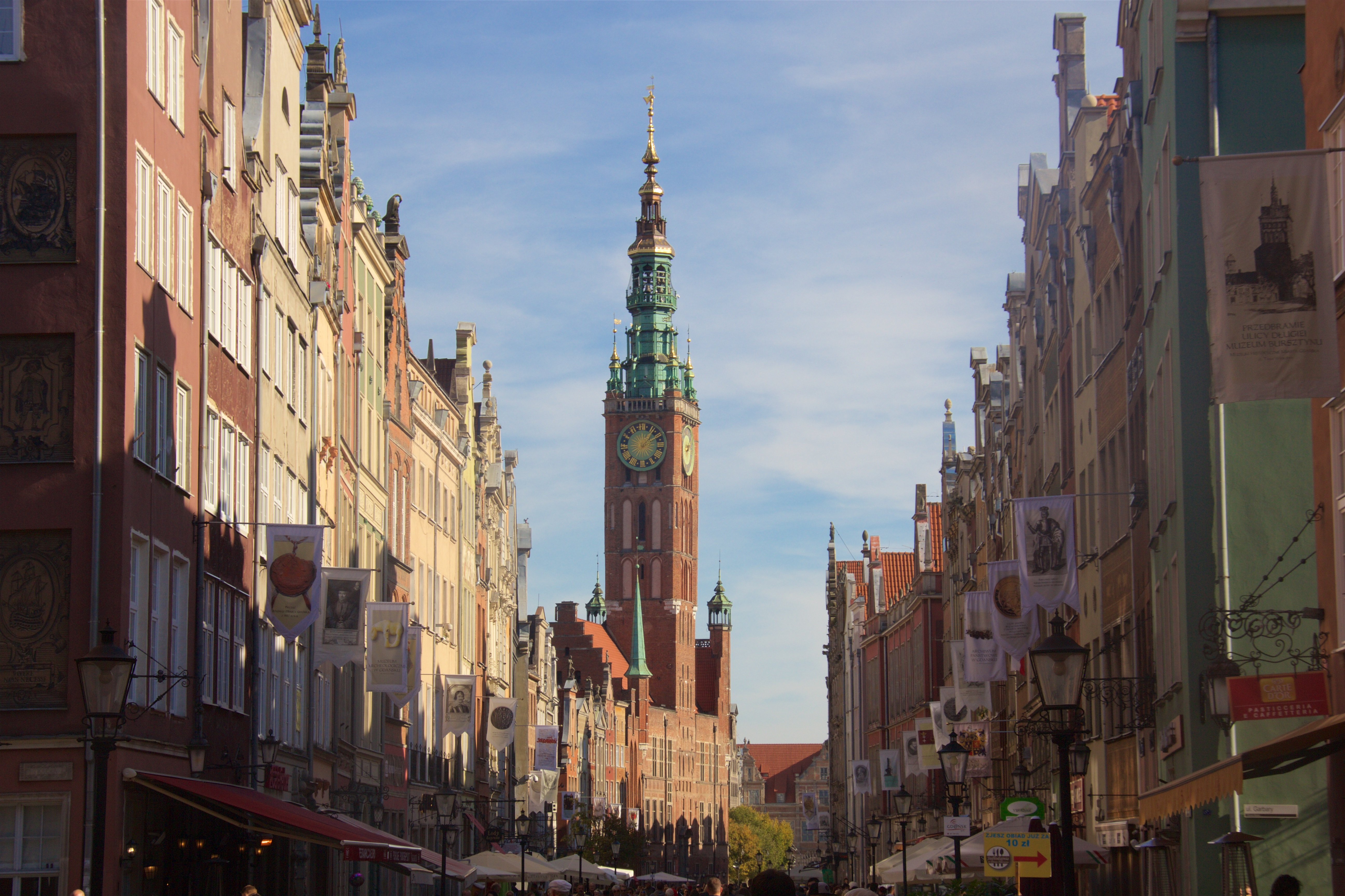 The Main Town Hall in Gdańsk, Poland.